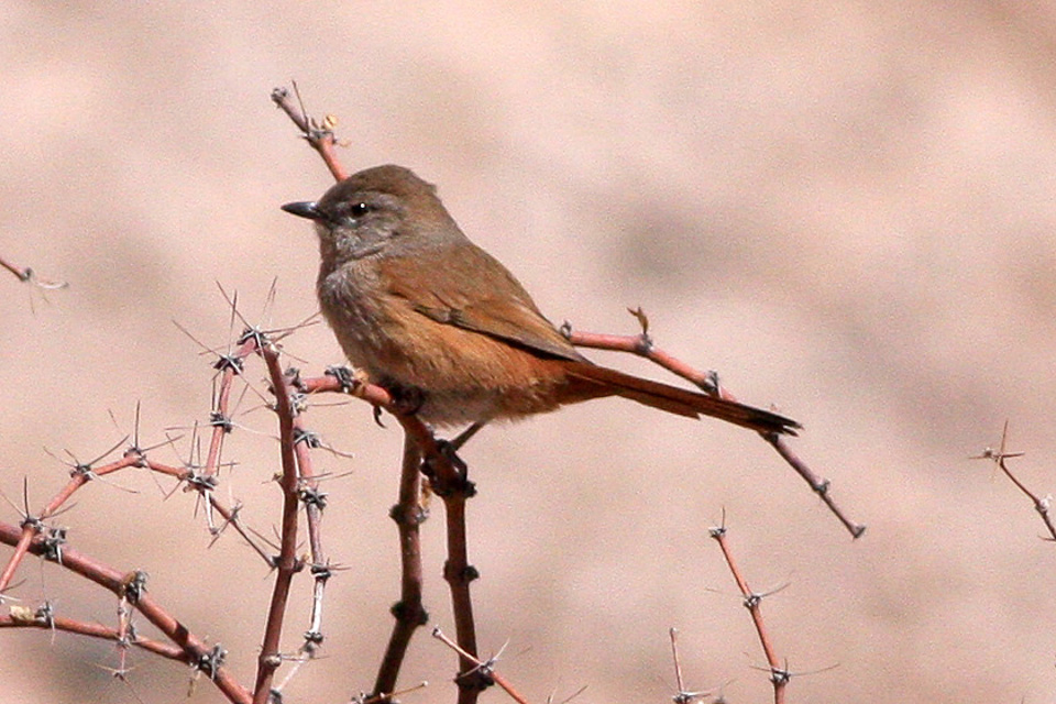 Steinbach's Canastero (Pseudasthenes steinbachi), Cafayata to Cachi, Salta, Argentina